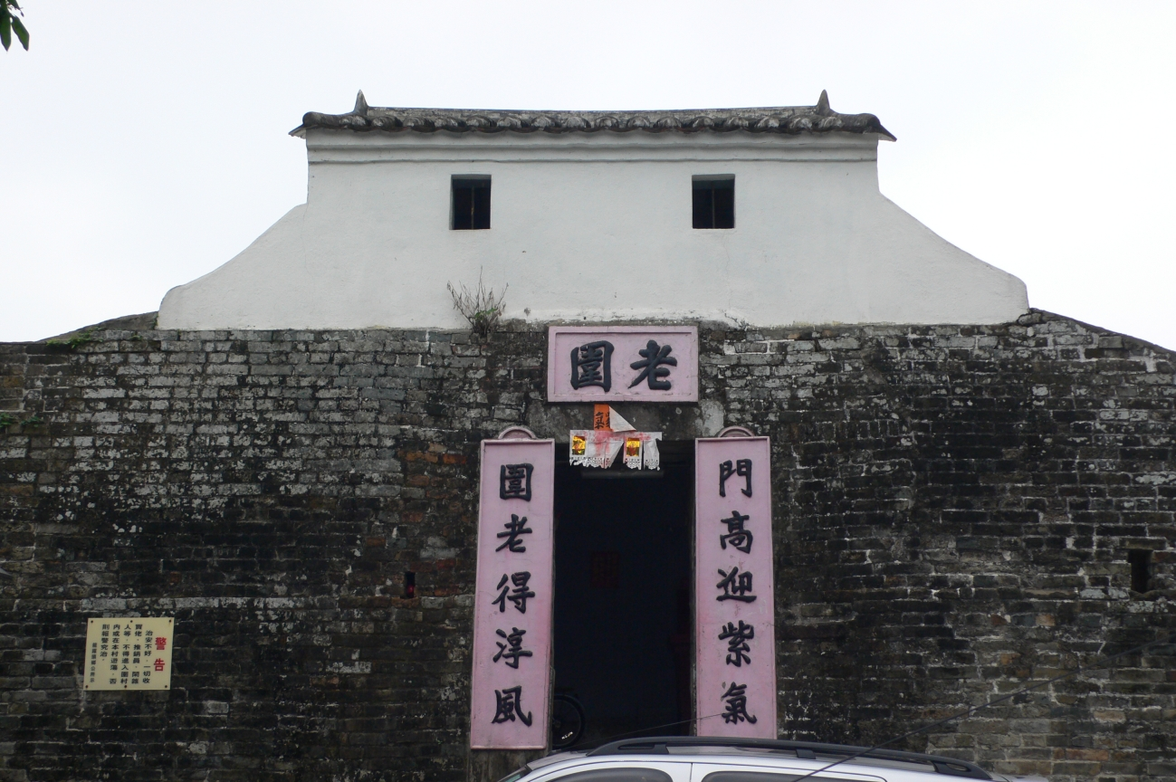 The Main Gate of Lo Wai, a wall village in Lung Yeuk Tau, Fanling, Hong Kong